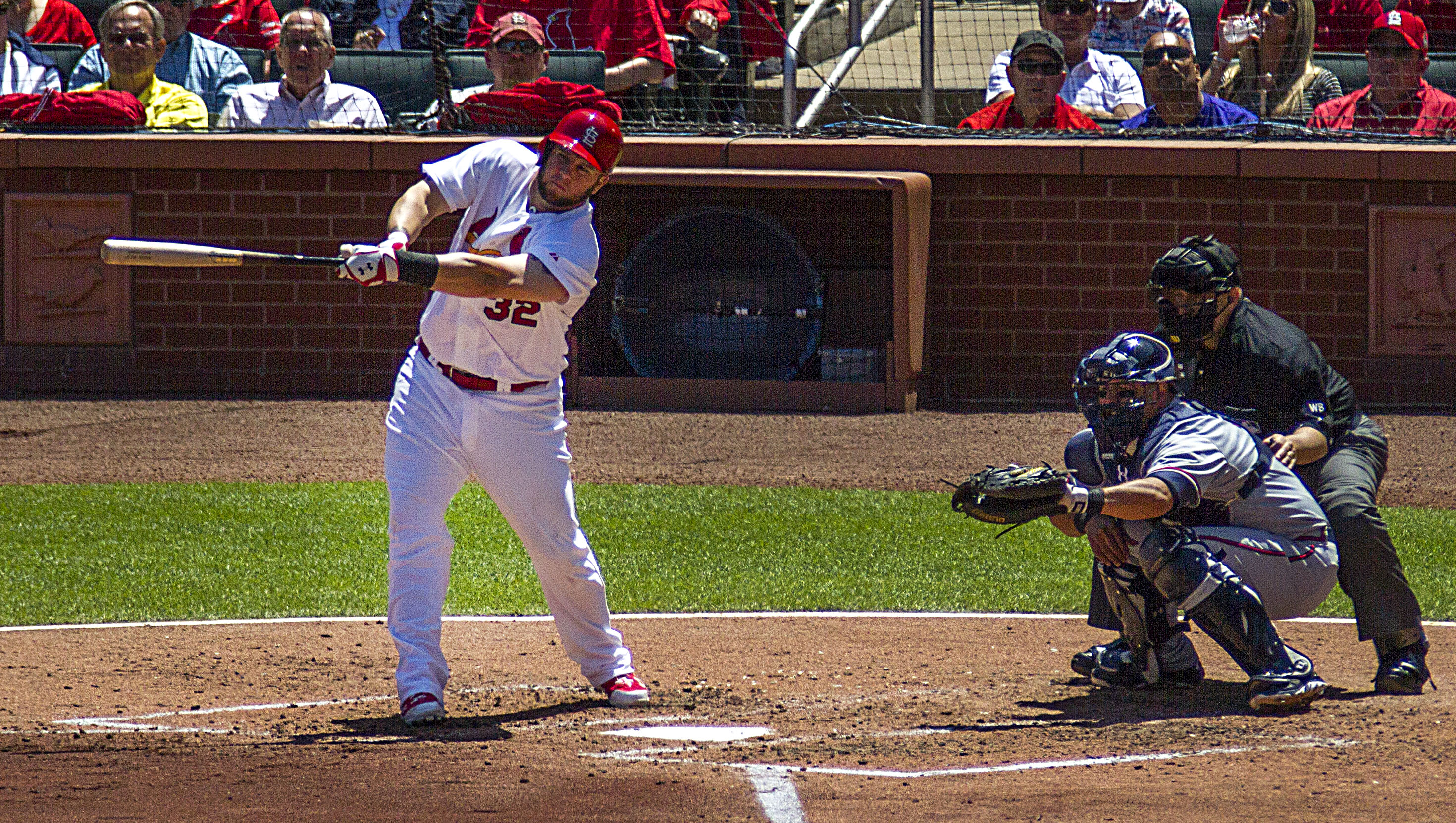 Matt Adams St.Louis Cardinals batting.